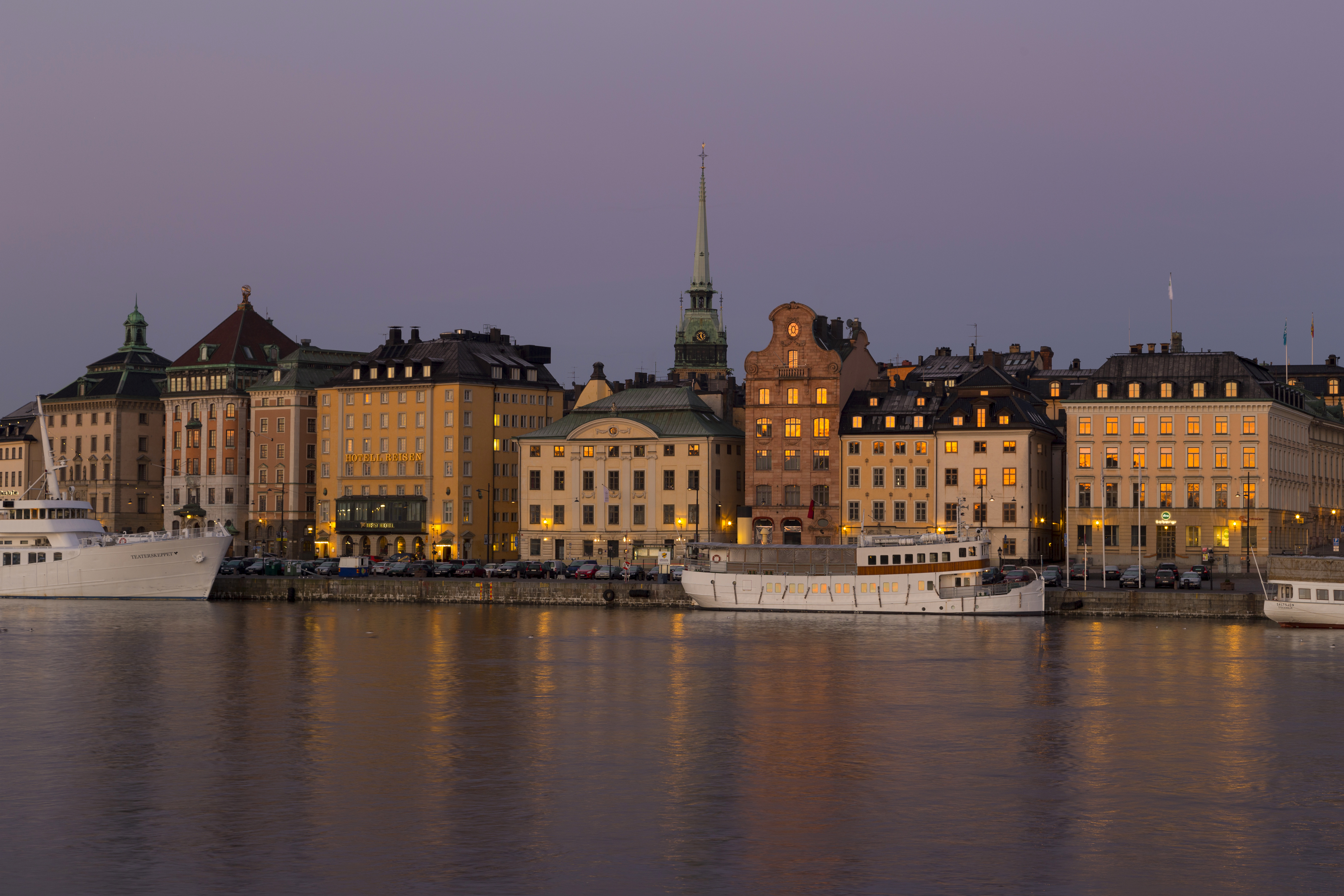 Stockholm´s Old Town seen from Skeppsholmen before sunrise